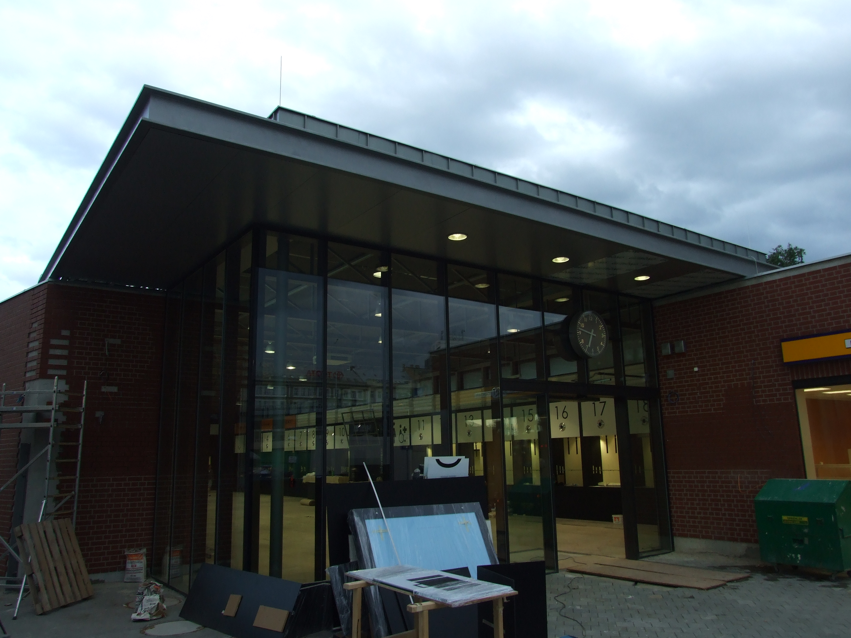 New bus terminal under construction in Prague-Florenc, Prague, CZhelp